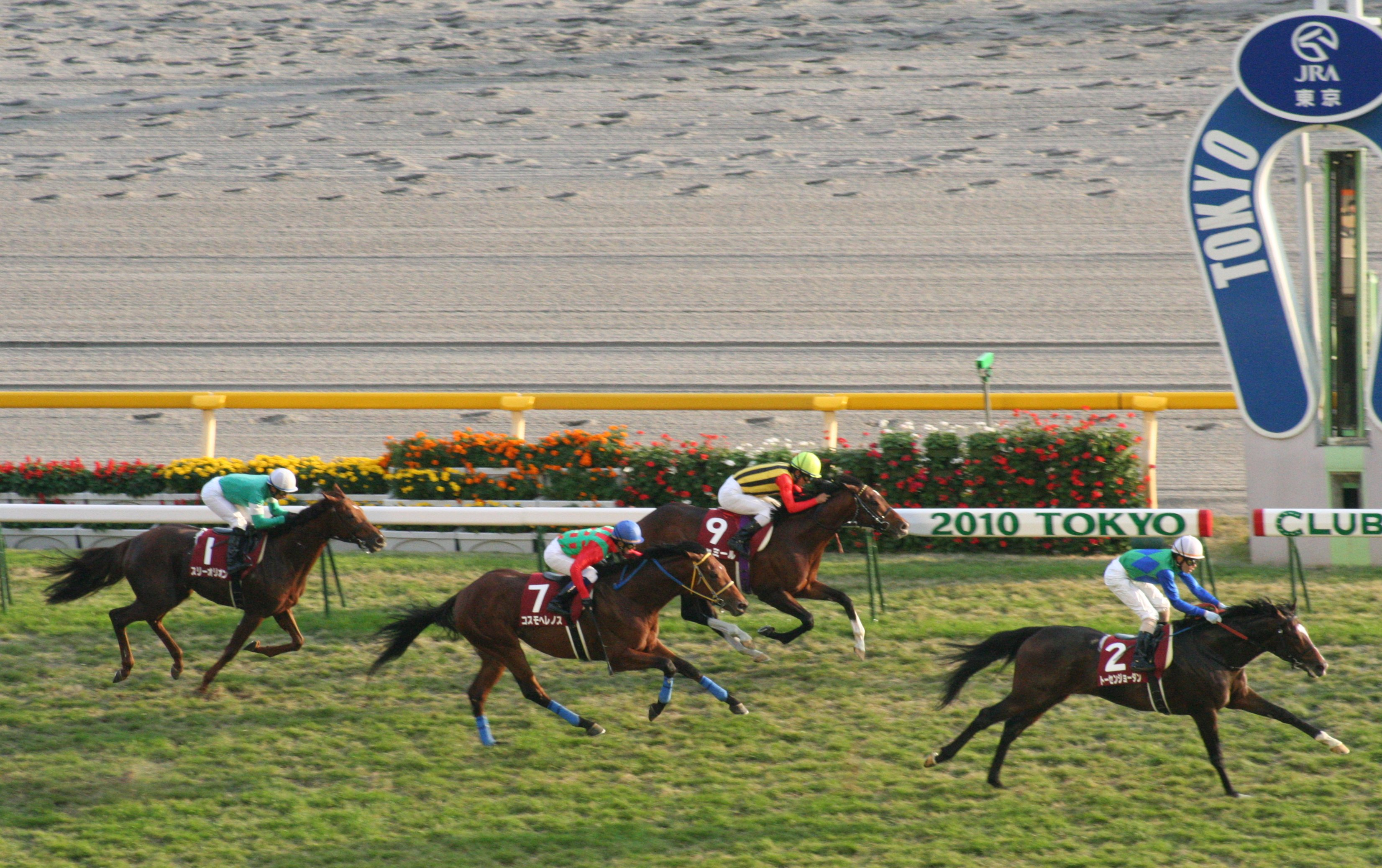 The 48th Copa Republica Argentina(Tokyo Racecourse)